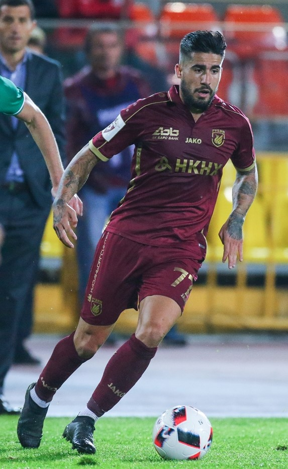 Samu Garcia in match FC Rubin - FC Tom on 09/26/16